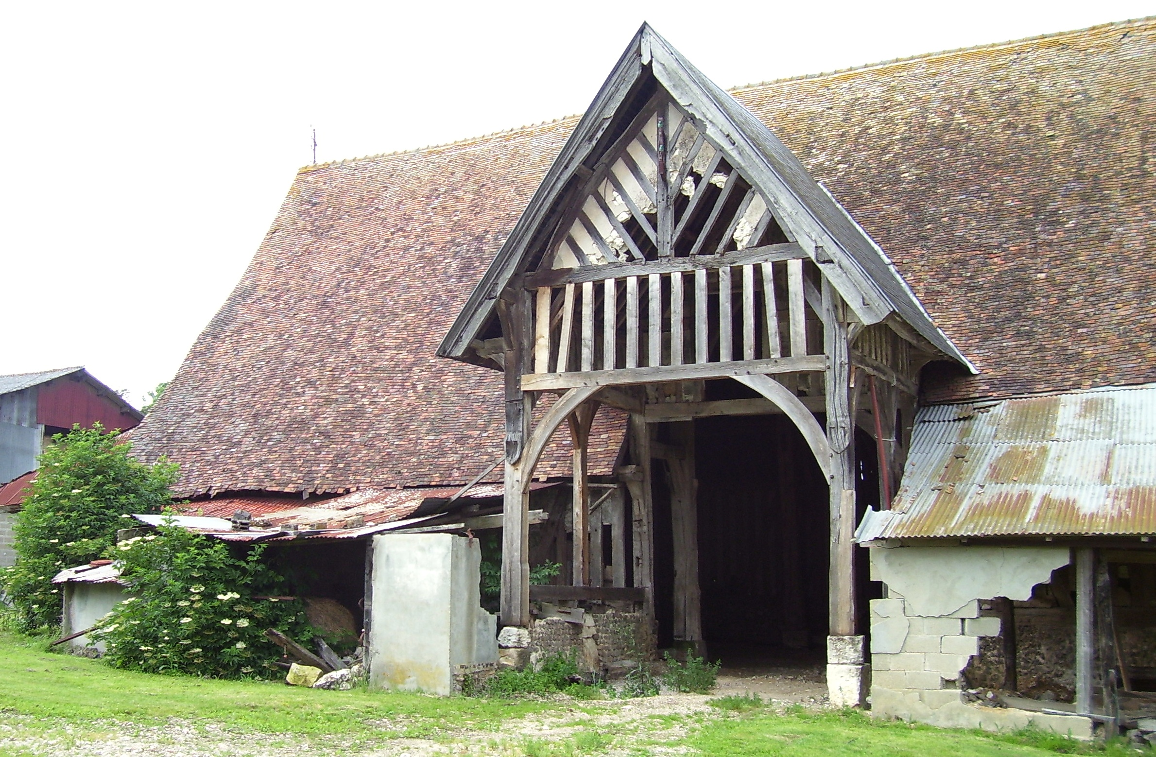 Tithe barn (Grange dîmeresse de la Haule) in Aclou (Eure), France. It was built in the 15th century.